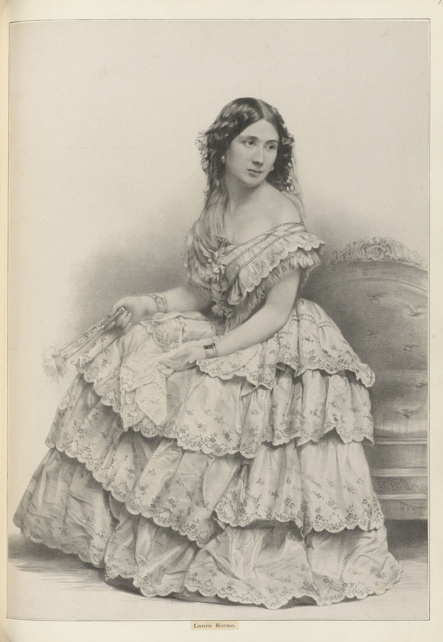 British actress Laura Keene (1826-1873) as Florence Trenchard (from Our American Cousin). TS 939.5.3, Harvard Theatre Collection, Houghton Library, Harvard University